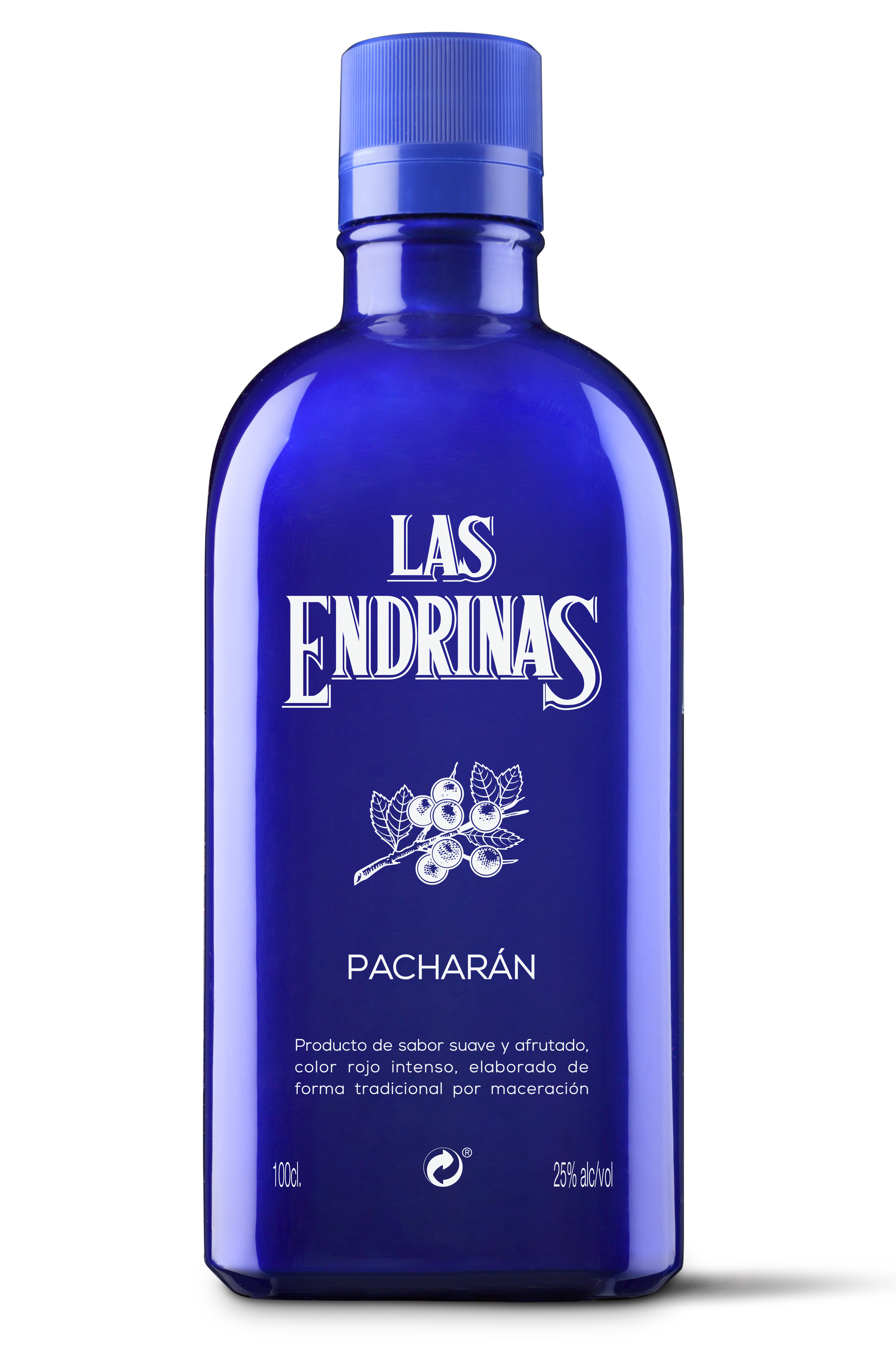 A bottle of the Spanish sloe berry liqueur "Pacharan"